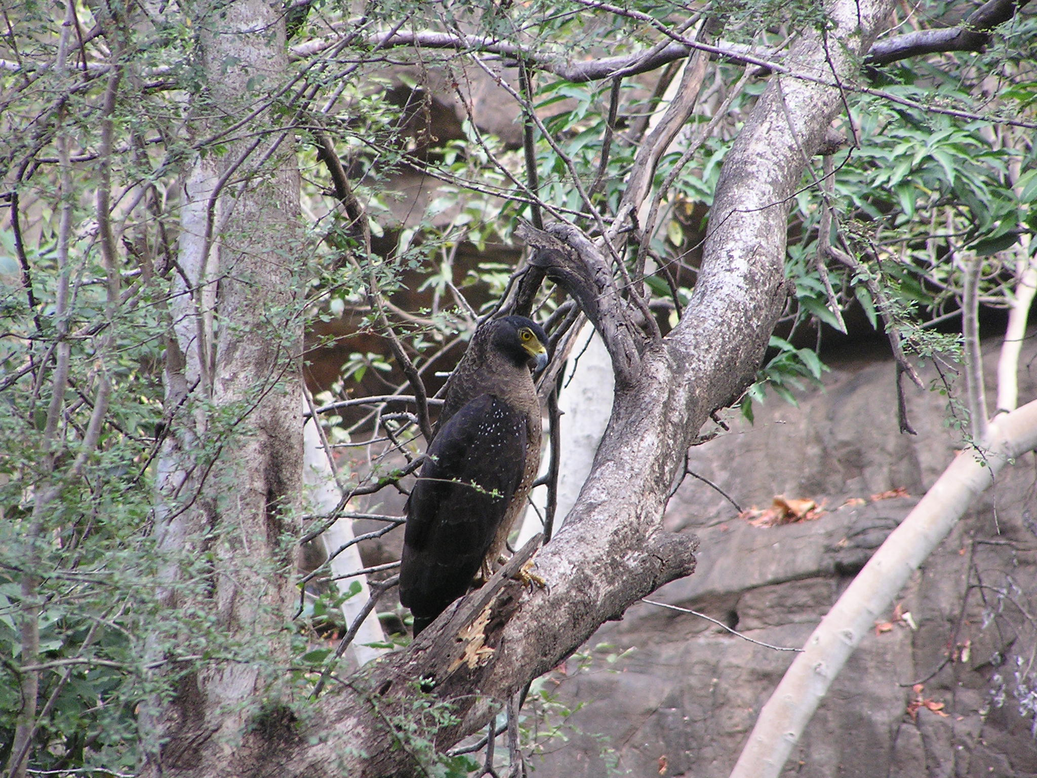 A Crested Serpent Eagle perched in a tree at Ranthambore National Park